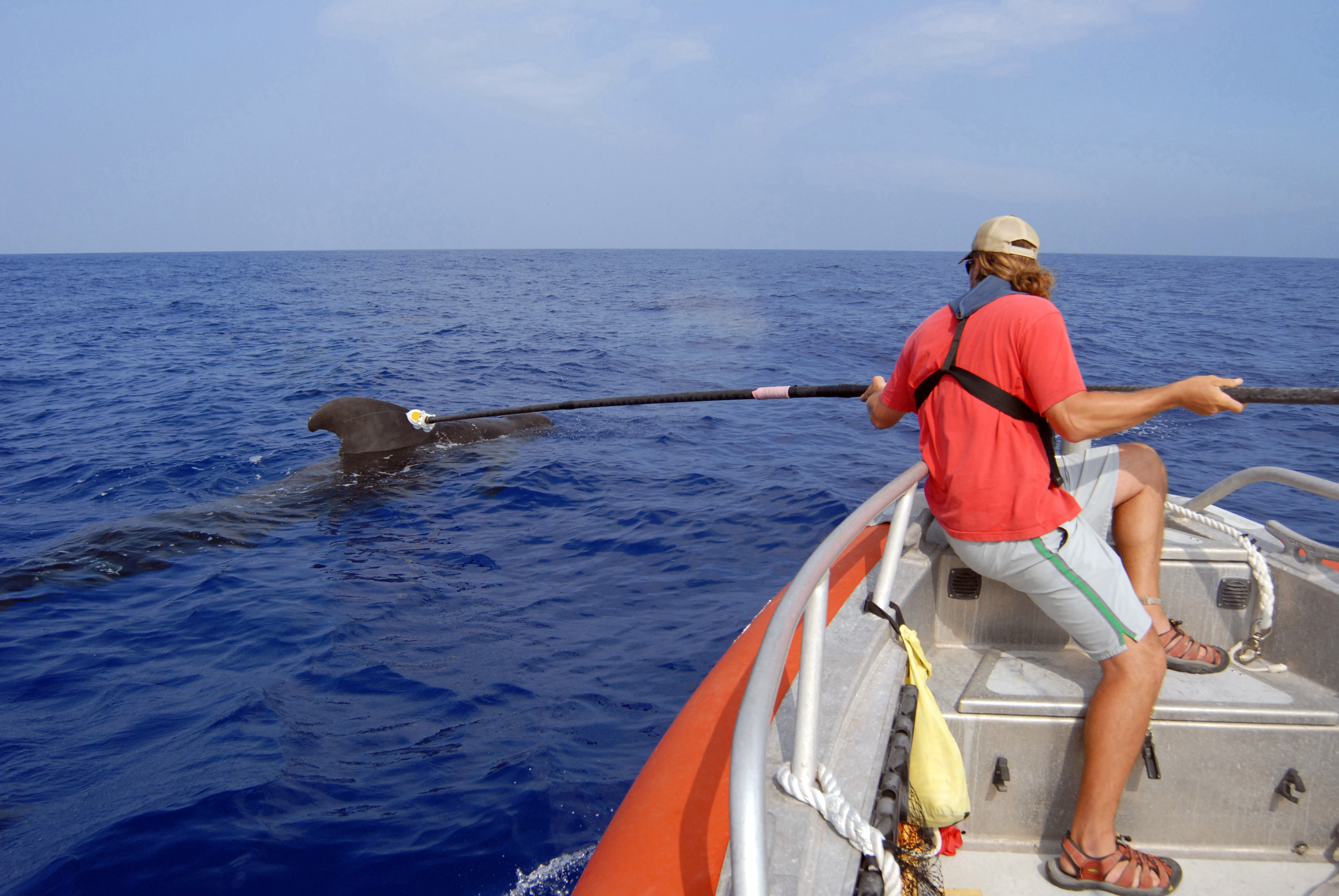 PACIFIC OCEAN (July 20, 2008) Ari Friedlaender, a Duke University Marine Laboratory researcher, attaches a D-TAG to a pilot whale off the coast of Kona, Hawaii. Friedlaender is collaborating with scientists at The Woods Hole Oceanographic Institution to study the effects of sound on marine mammals. The D-TAG is a digital acoustic recording tag ised to study marine mammal behavior. (U.S. Navy photo by Ari S. Friedlaender/Released)